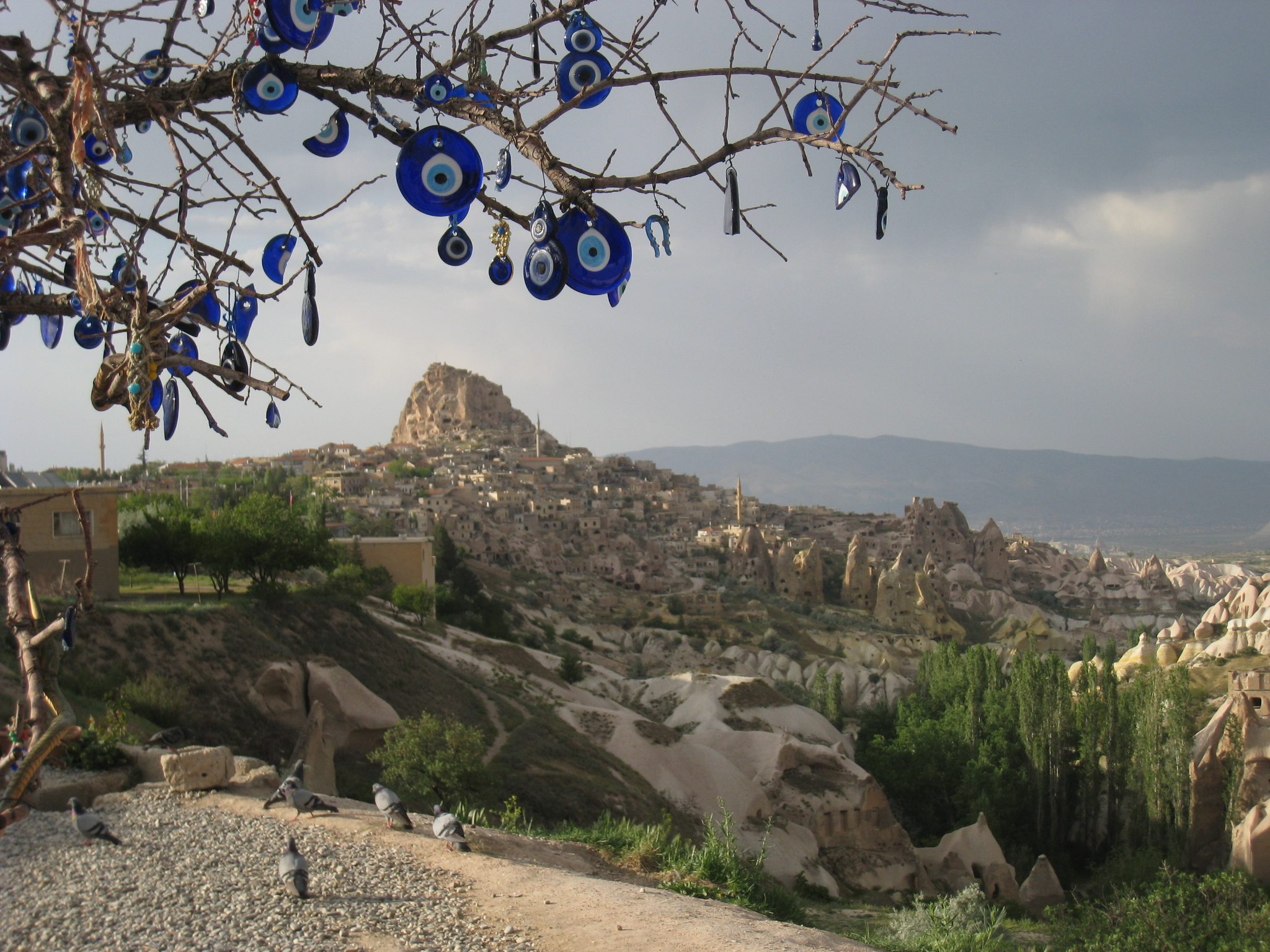 "Evil eye" (nazar) tree in Uçisar, Cappadocia, Turkey